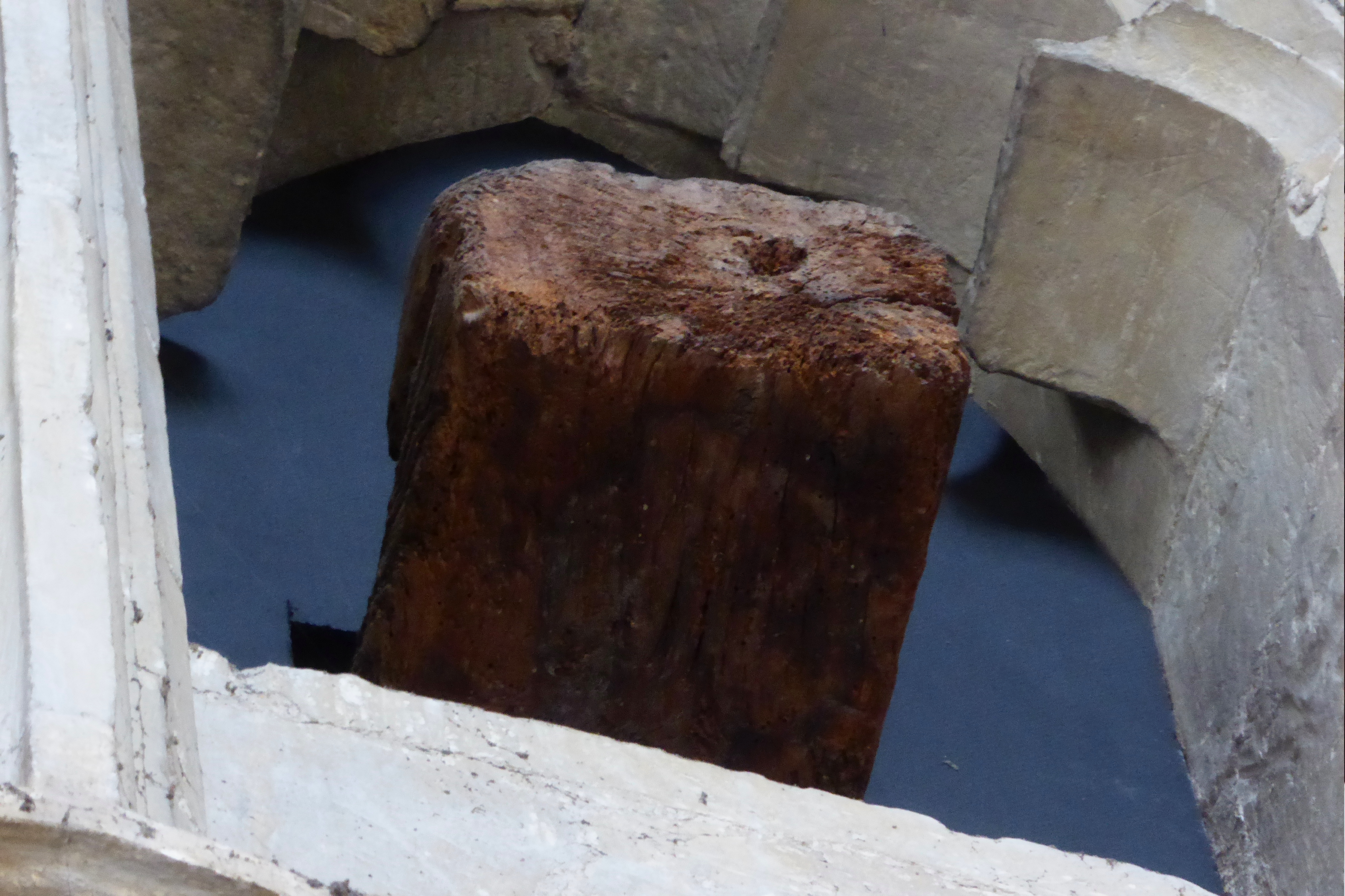 The "Miraculous Beam" in Christchurch Priory, Dorset.